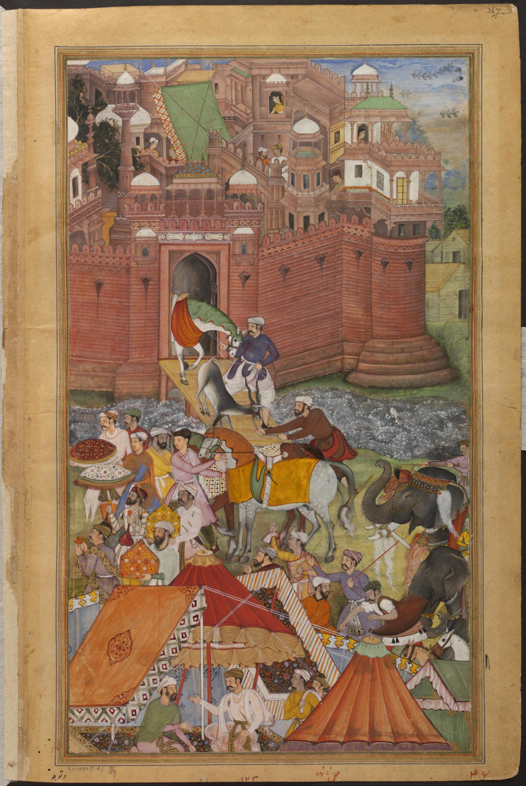 Incident in Karah 1567. Right half of a douple-page composition. Coloring Nānhā. Akbar-nāma, V&A Mus., IS 2:57-1896.